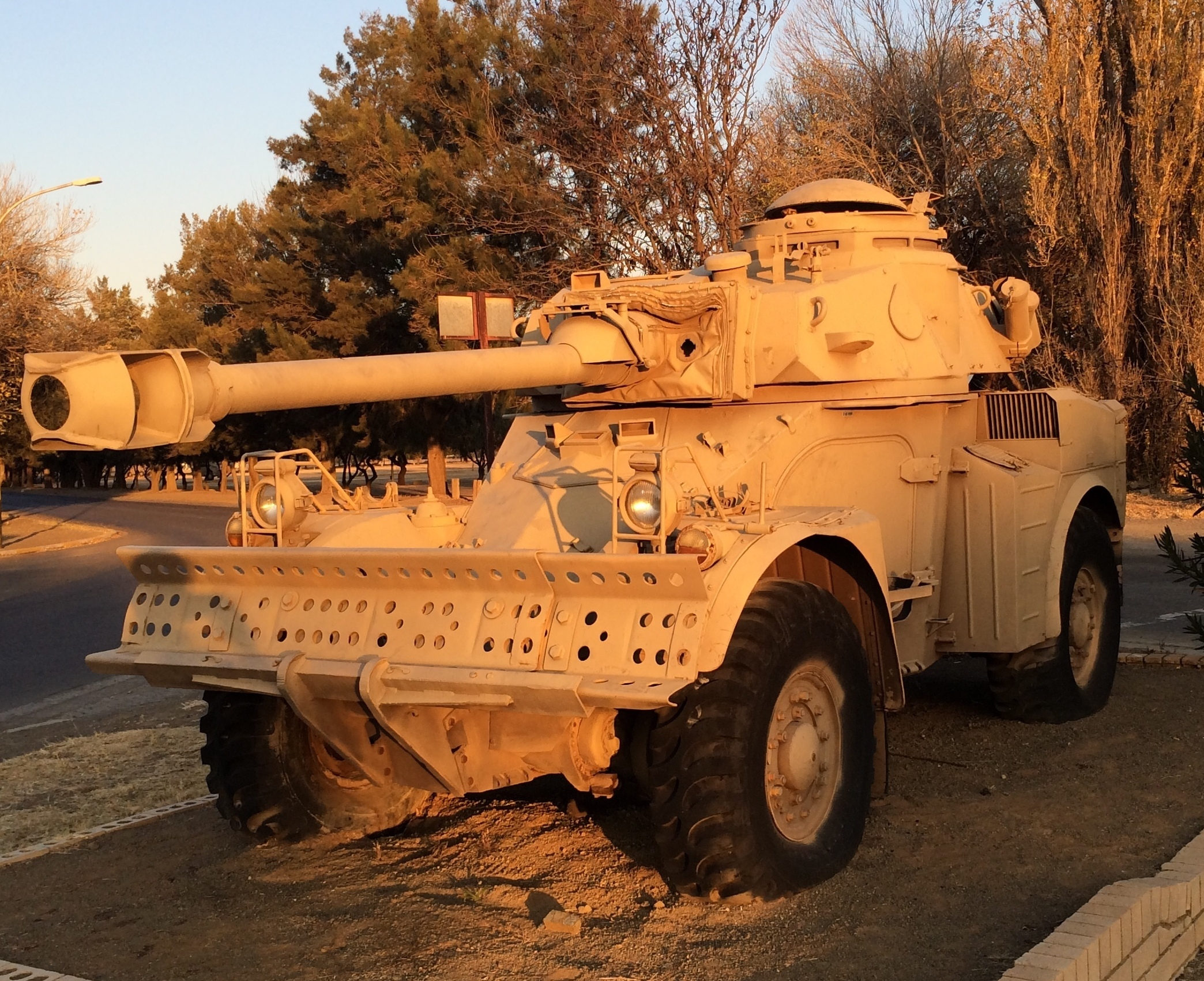 Description: Armored car with disabled 90mm gun at 1 Tank Regiment, Bloemfontein. 2014. Subject is an Eland Mk7, by Armscor of South Africa. The vehicle in question is no longer operational and is now being used as an on-base marker at Tempe.